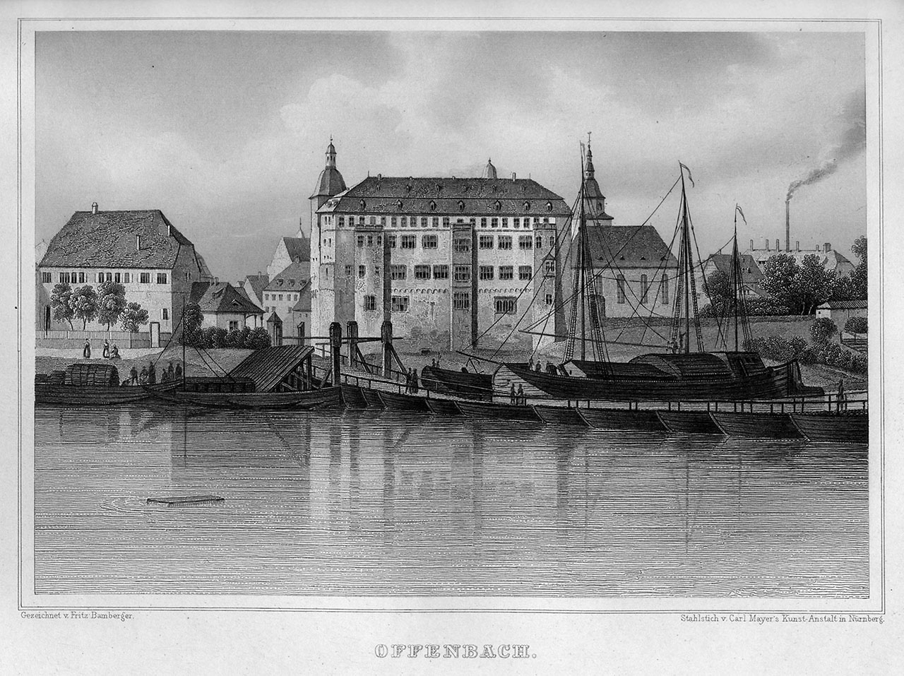 Offenbach, germany, image of the Isenburg Castle